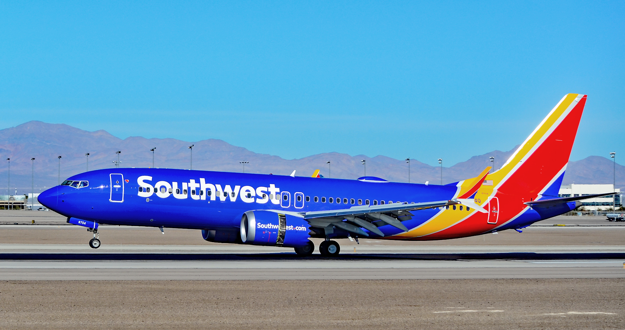 Las Vegas - McCarran International (LAS / KLAS) USA - Nevada, January 7, 2018 Photo: Tomás Del Coro